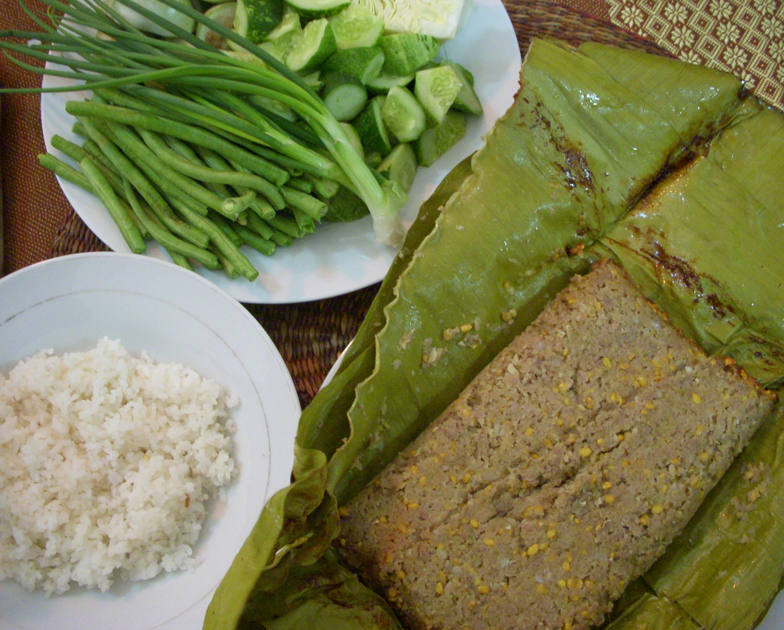 An ordinary meal of Cambodian staples. Prahok ang (ប្រហុកអាំង). Prahok fried in banana leaves, fresh green vegetables and steamed rice.